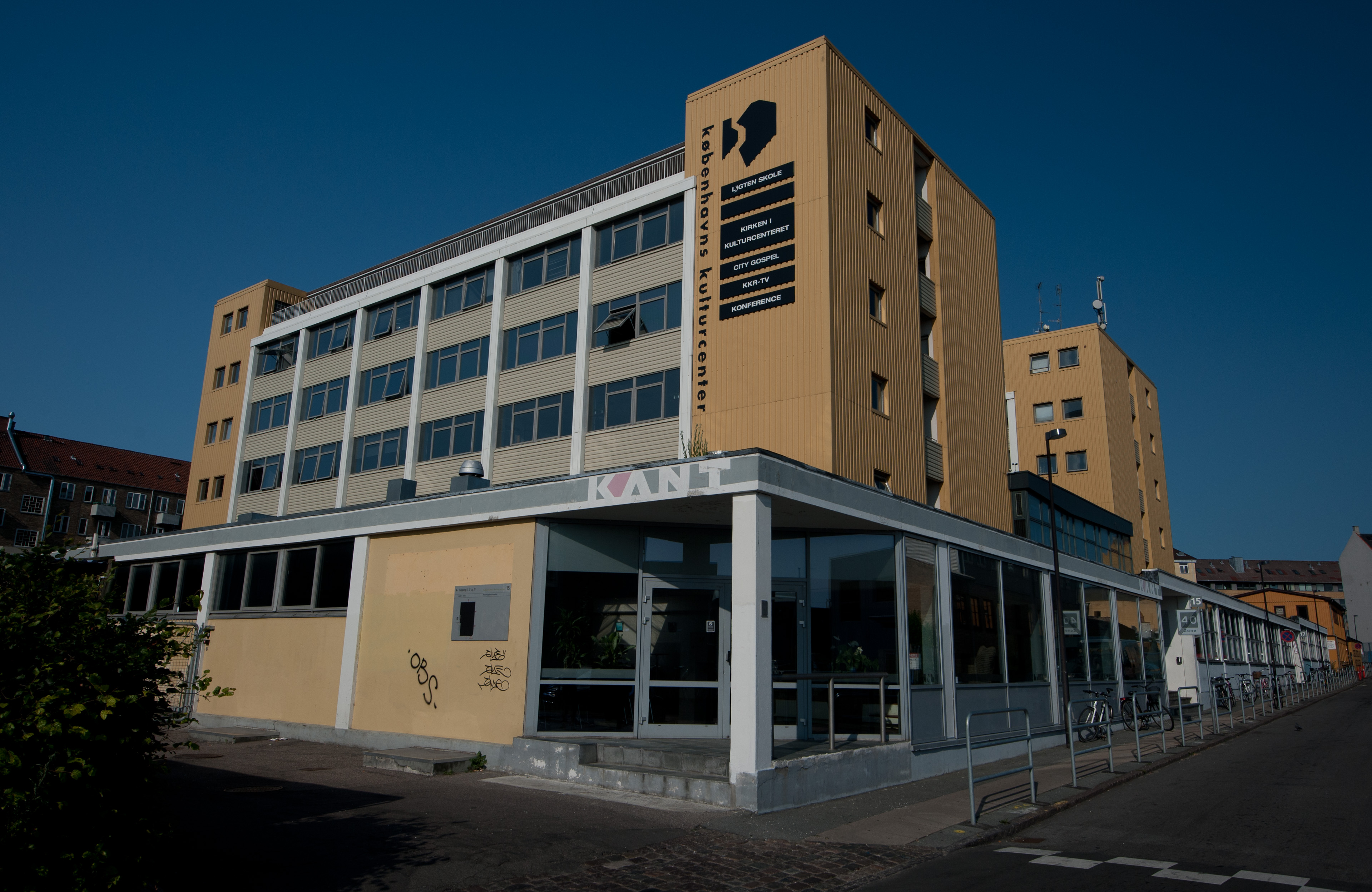 A pentecostalist church run cultural center, Københavns Kulturcenter (lit. Copenhagen Cultural Center) offering conference, meeting and other facilities.